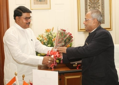 Chaudhary Rakesh Singh